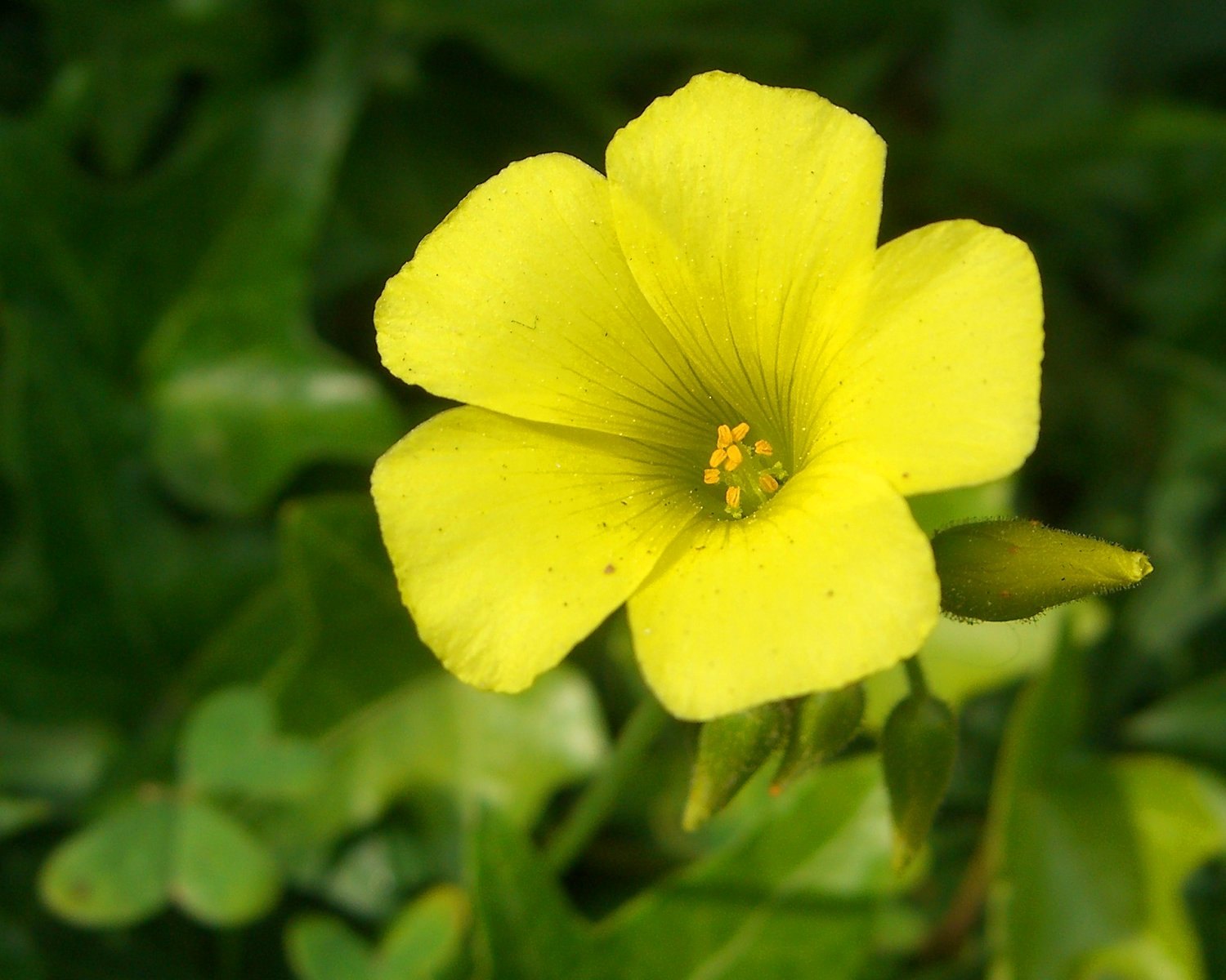 Scientific Name: Oxalis pes-caprae-caprae L. Common Name: Bermuda Buttercup Certainty: positive (notes) Location: California; Los Angeles; Urban Pasadena Date: 20070402